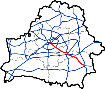 Map of main automobile roads in Belarus with M5 highway i.e. Europe-road E271 highlighted in red.